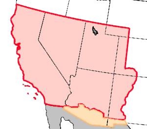 Lands ceded to the USA in the wake of the Mexican-American War (red) and the Gadsden purchase (yellow)